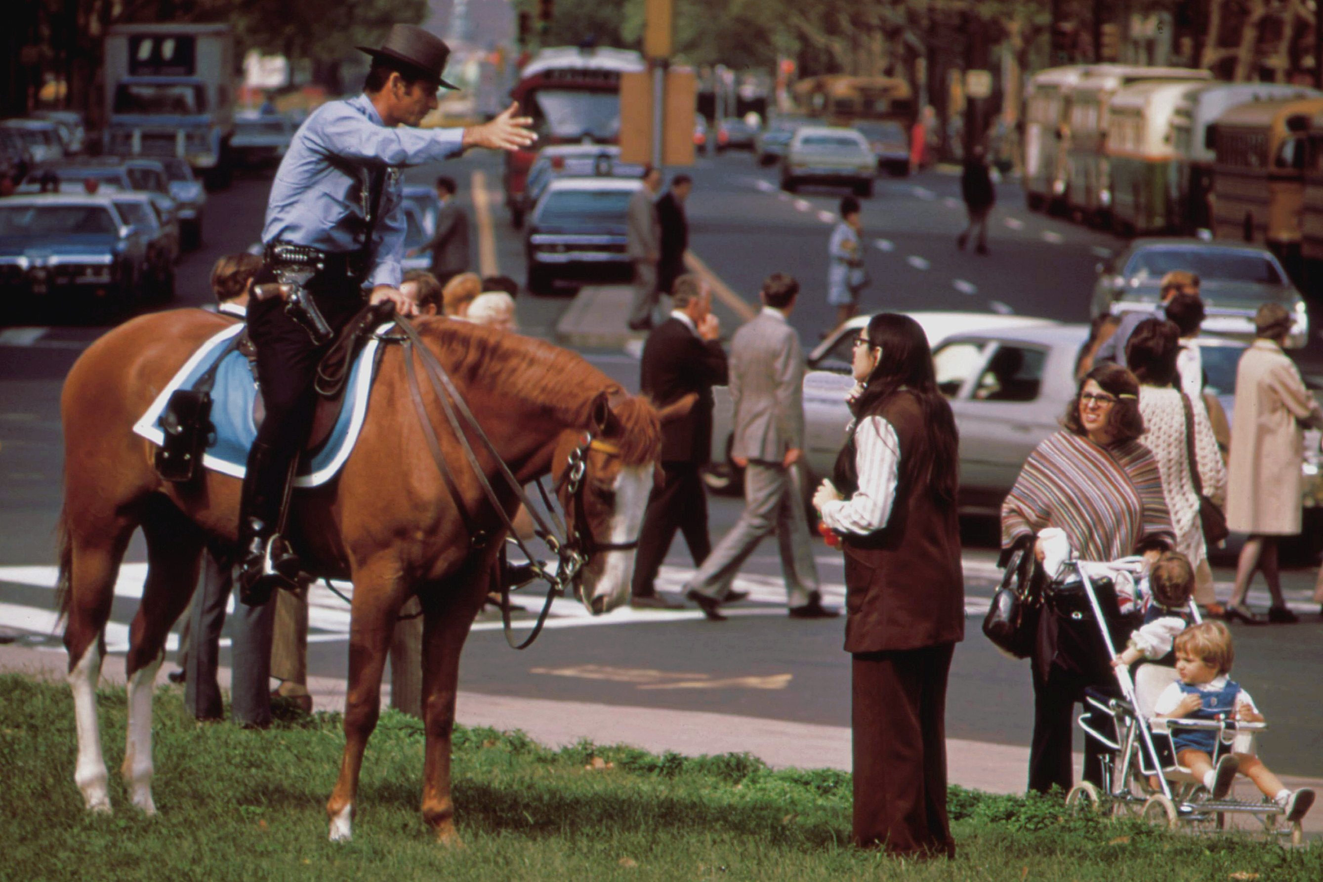 Mounted policeman in Philadelphia